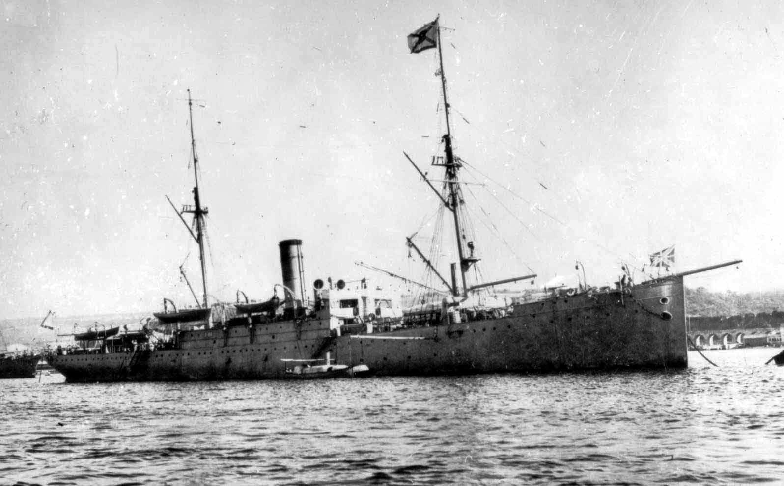 Imperial Russian minelayer Prut.